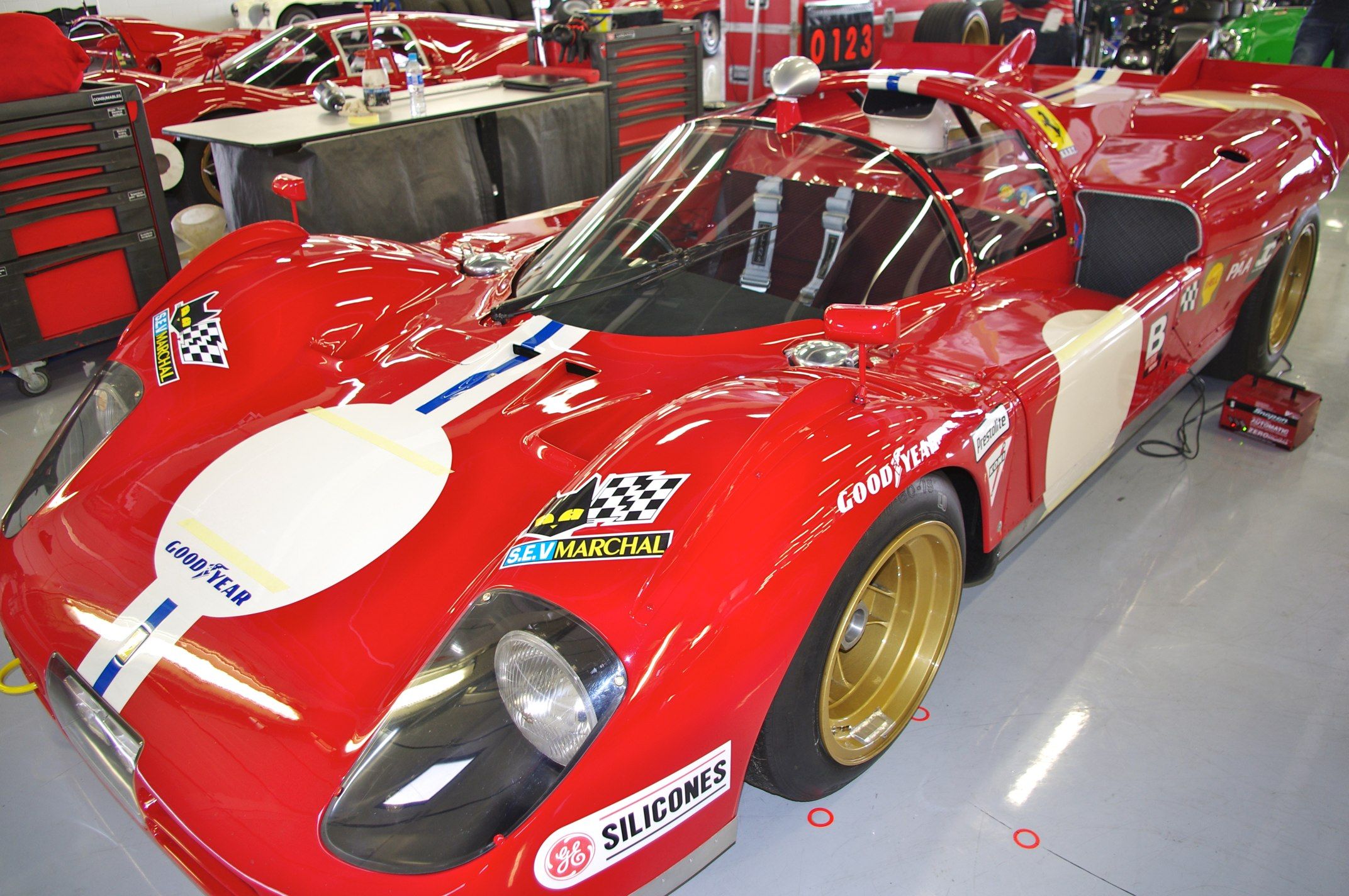 Silverstone Classic 2011